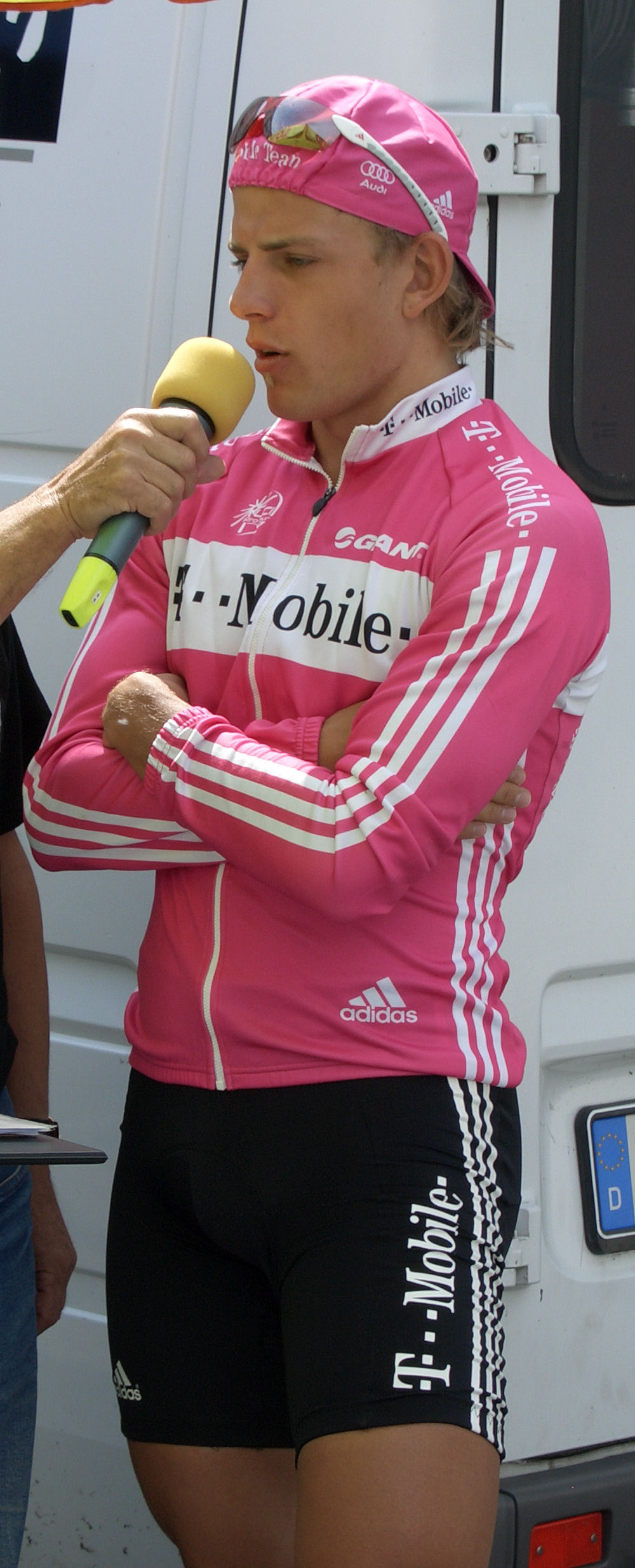 Gerald Ciolek